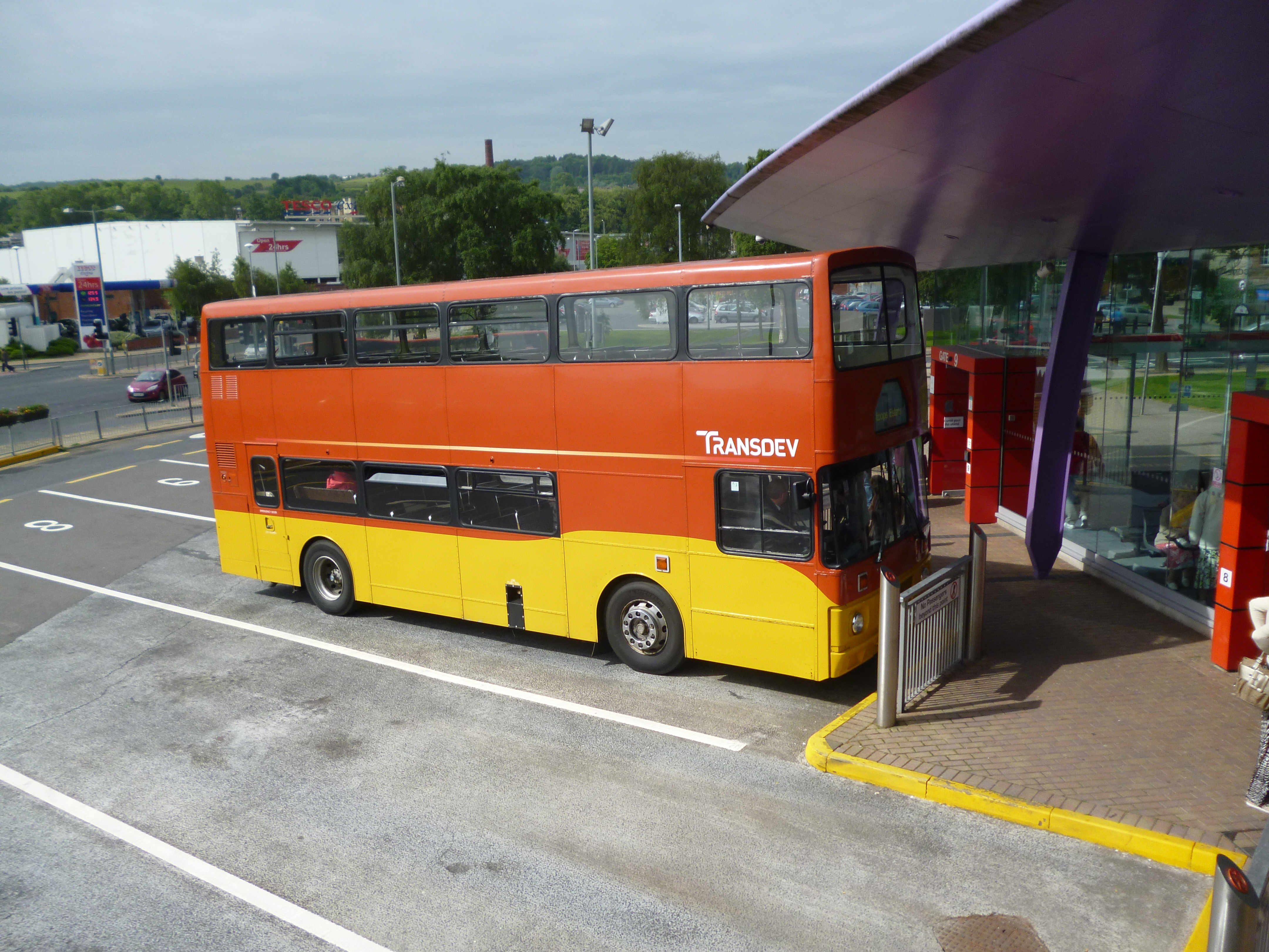 Transdev Burnley & Pendle bus 196 (reg. F96 PRE), a 1988 Leyland Olympian with Alexander RL bodywork, pictured in Burnley bus station. It was new to Stephensons of Uttoxeter, passing to Northern Blue in 2006. It entered the TB&P fleet on 1 September 2009 when Northern Blue, which had been bought by Transdev on 5 August 2007, was merged with the Burnley & Pendle operation. It remained in Transdev Northern Blue livery until being repainted sometime between 2010/11 into this scheme, which uses the base design of the company's Starship, albeit without 'Starship' fleetnames. This was possibly because unlike proper Starship buses, it's not a low-floor midibus and it seemingly doesn't stay on local Burnley routes.